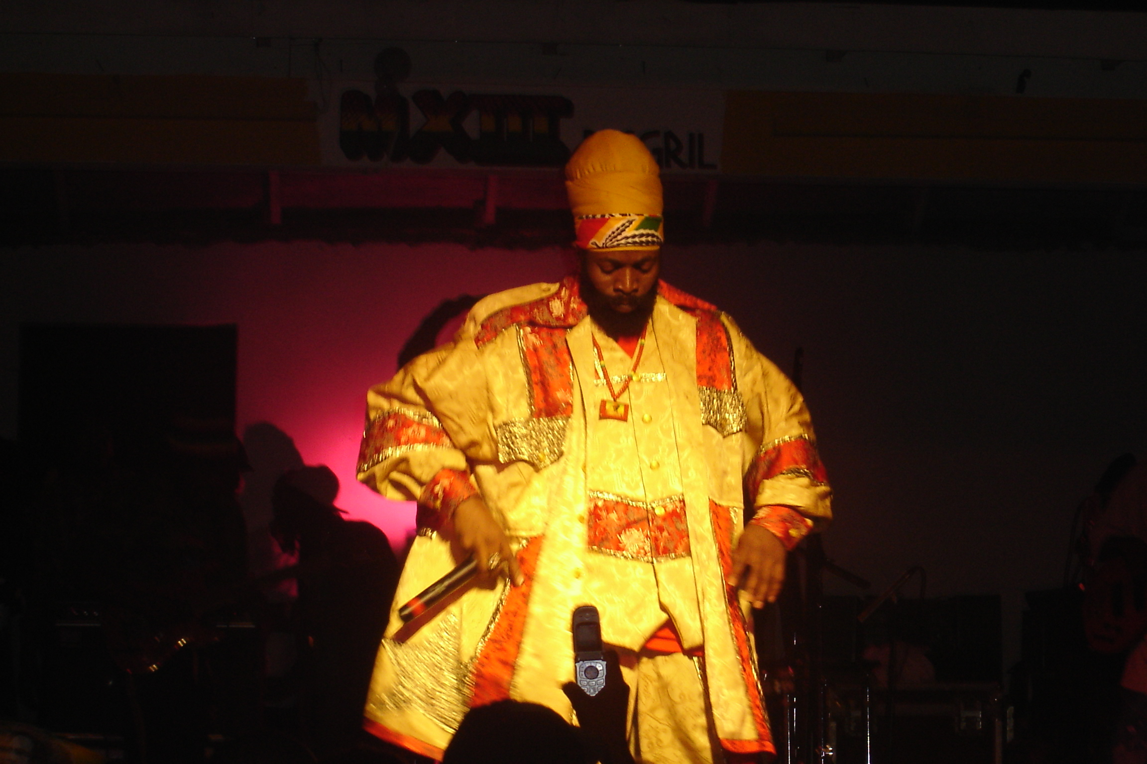 Capleton live beim Bob Marley Birthday Bash 2K6 im MX3 in Negril